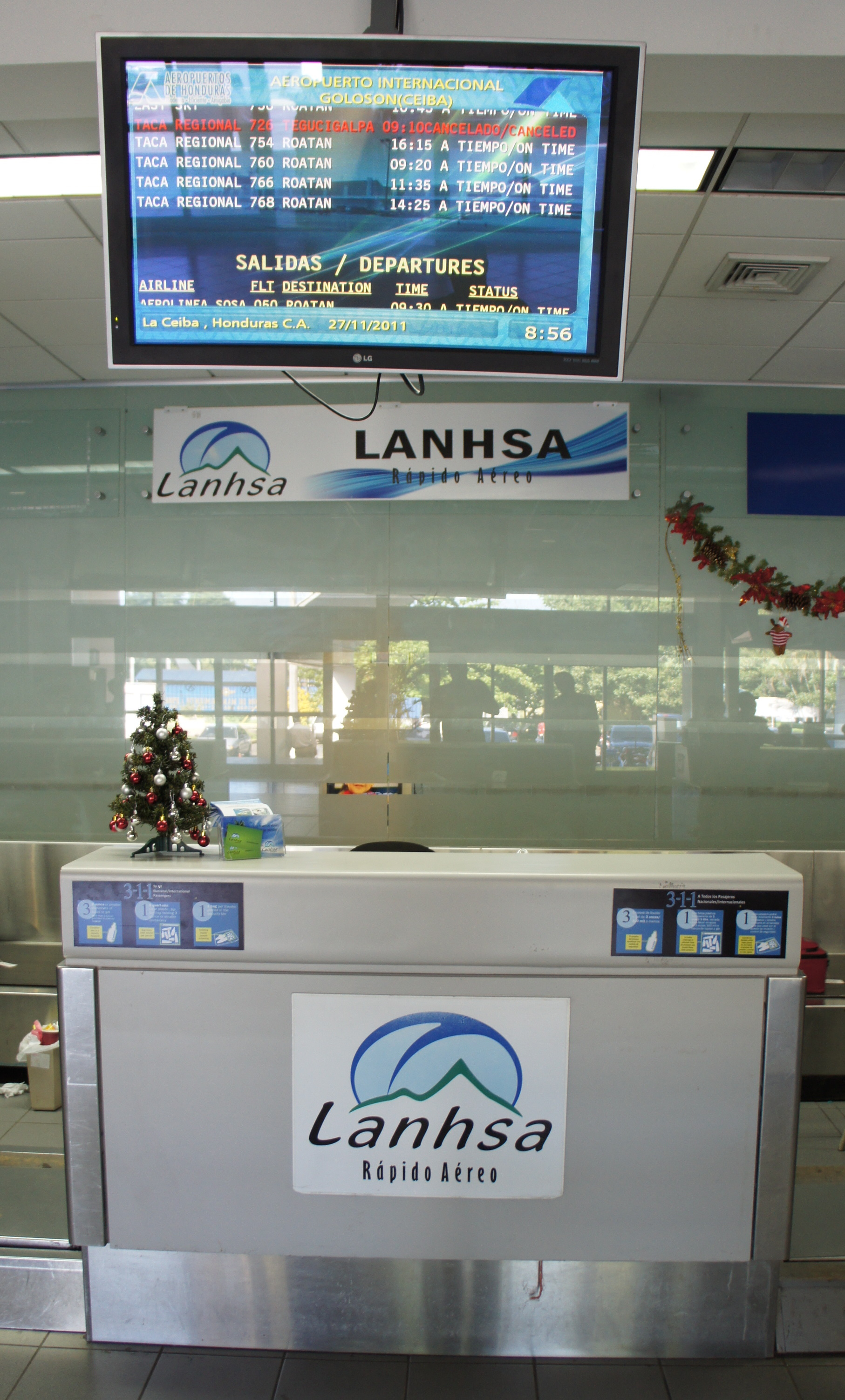 LANHSA checkin counter, San Pedro Sula, November 2011